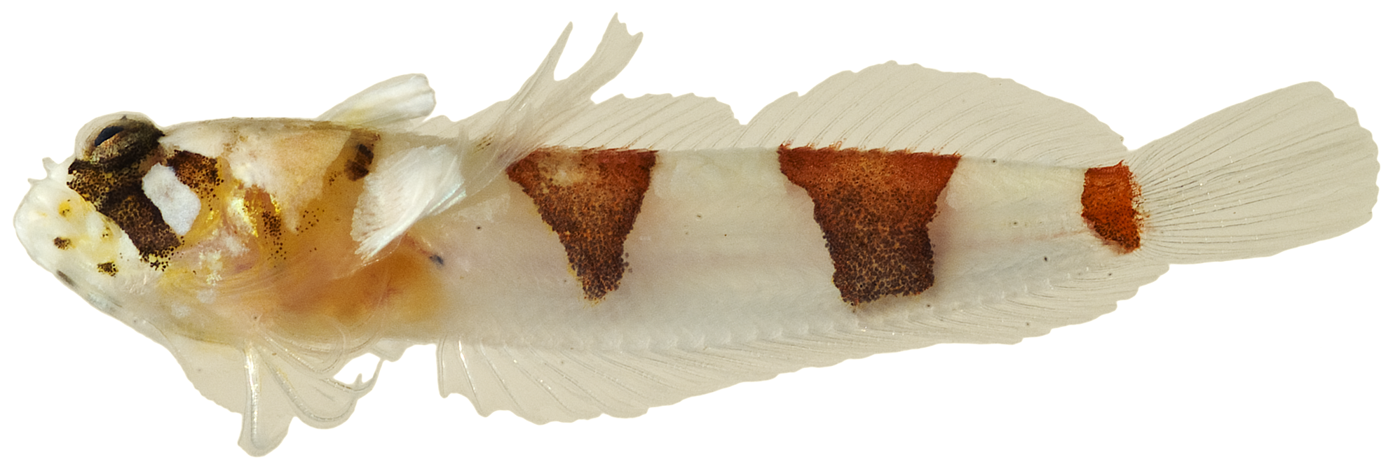 Platygillellus rubrocinctus (Longley, 1934)—saddle stargazer, 12.1 mm SL, lateral view of juvenile. Photo by JT Williams.